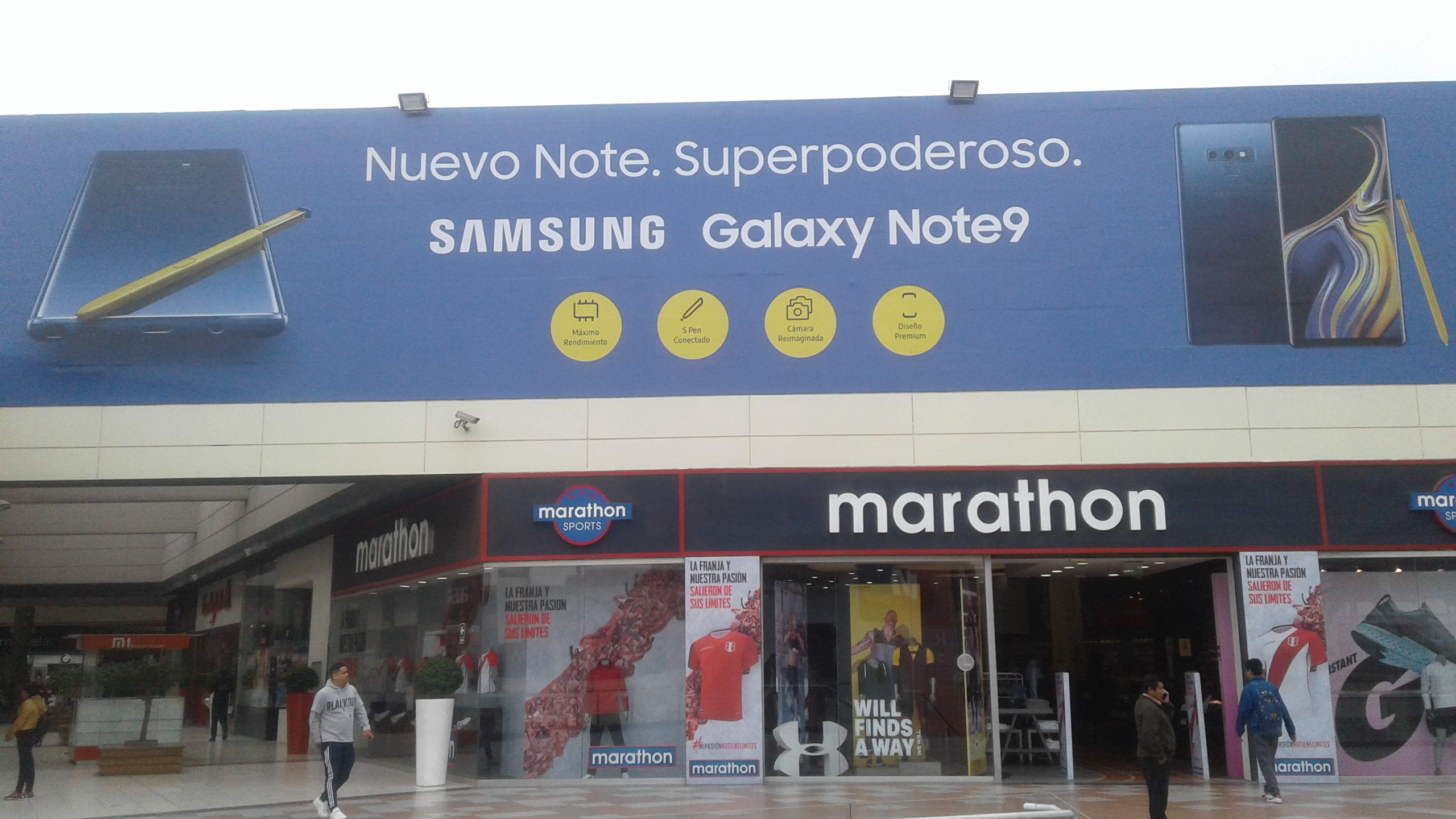 Nuevo Note. Superpoderoso SAMSUNG Galaxy Note9